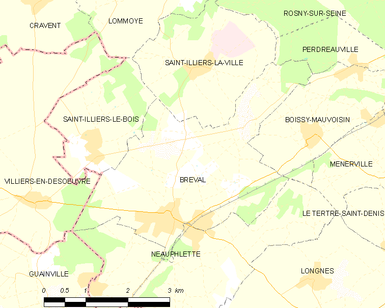 Map of French municipality Bréval